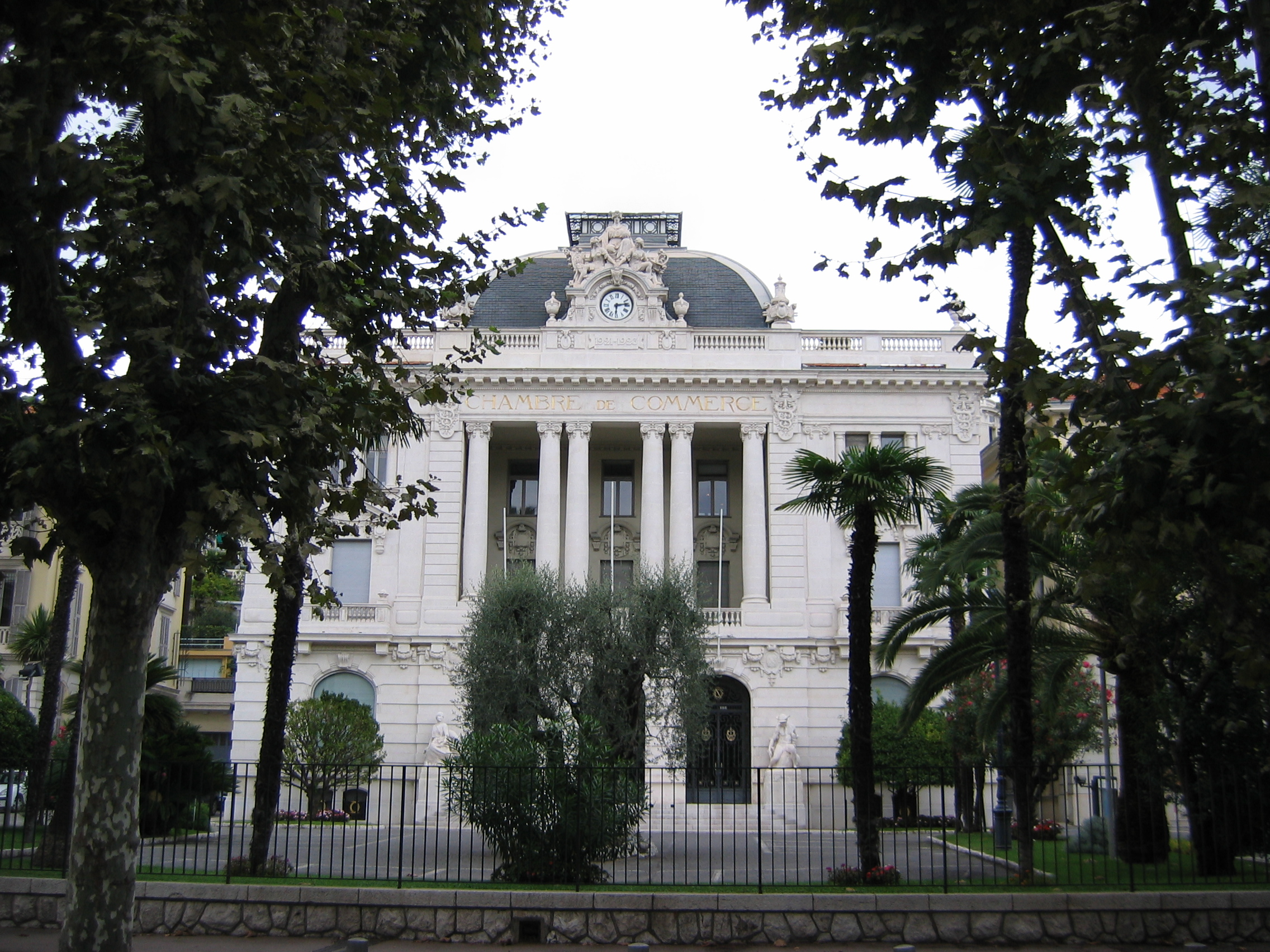 Front of headquarters of the Chambre de commerce et d'industrie Nice Côte d'Azur, boulevard Carabacel in Nice, France.